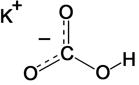 Potassium bicarbonate. Hydrogen-oxygen-carbon bonds shown as single. Bonds to remaining oxygens shown as 1.5 with a floating negative charge, reflecting resonance structures of the bicarbonate ion.